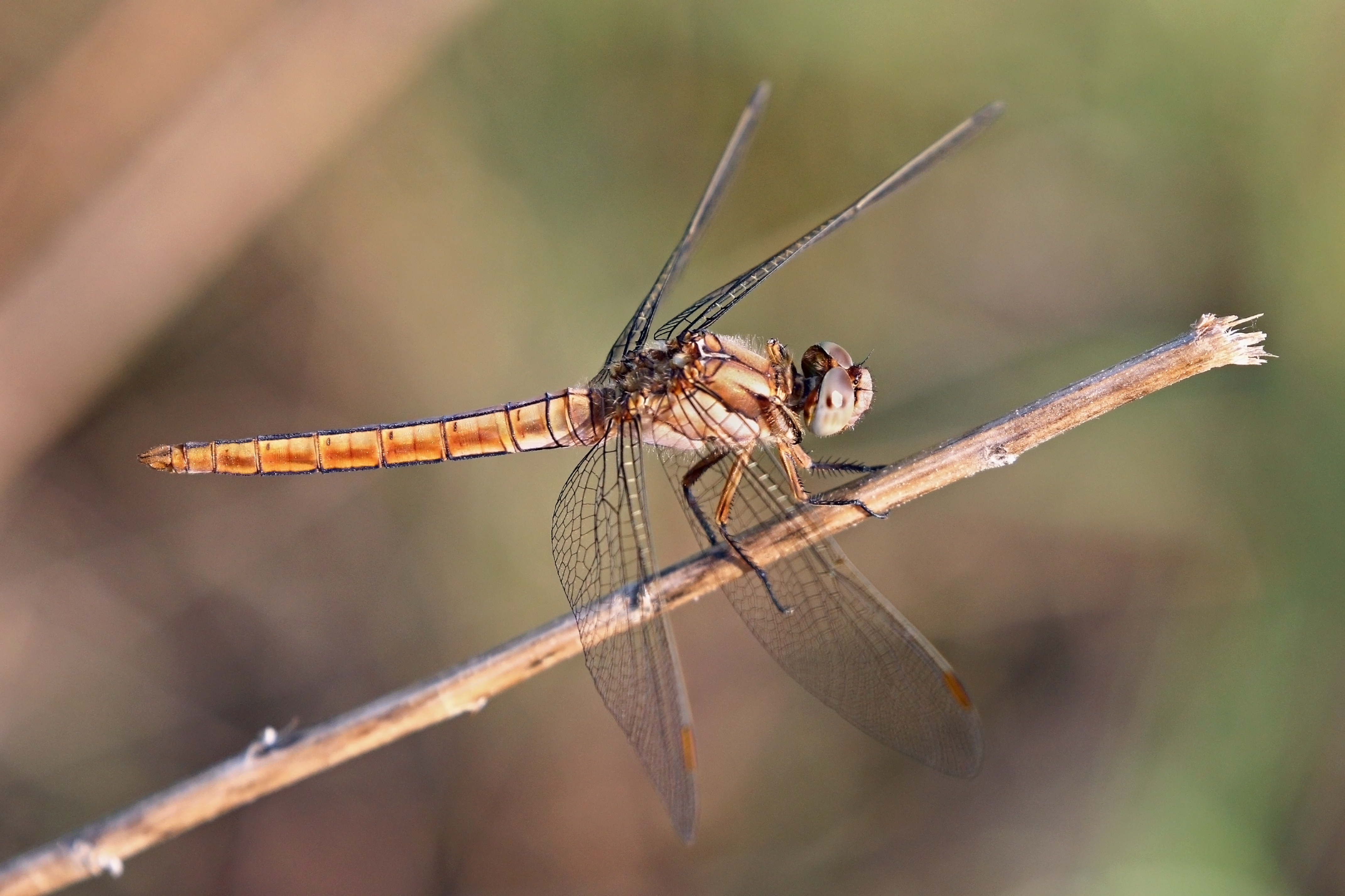 Southern skimmer (Orthetrum brunneum) female, Bulgaria